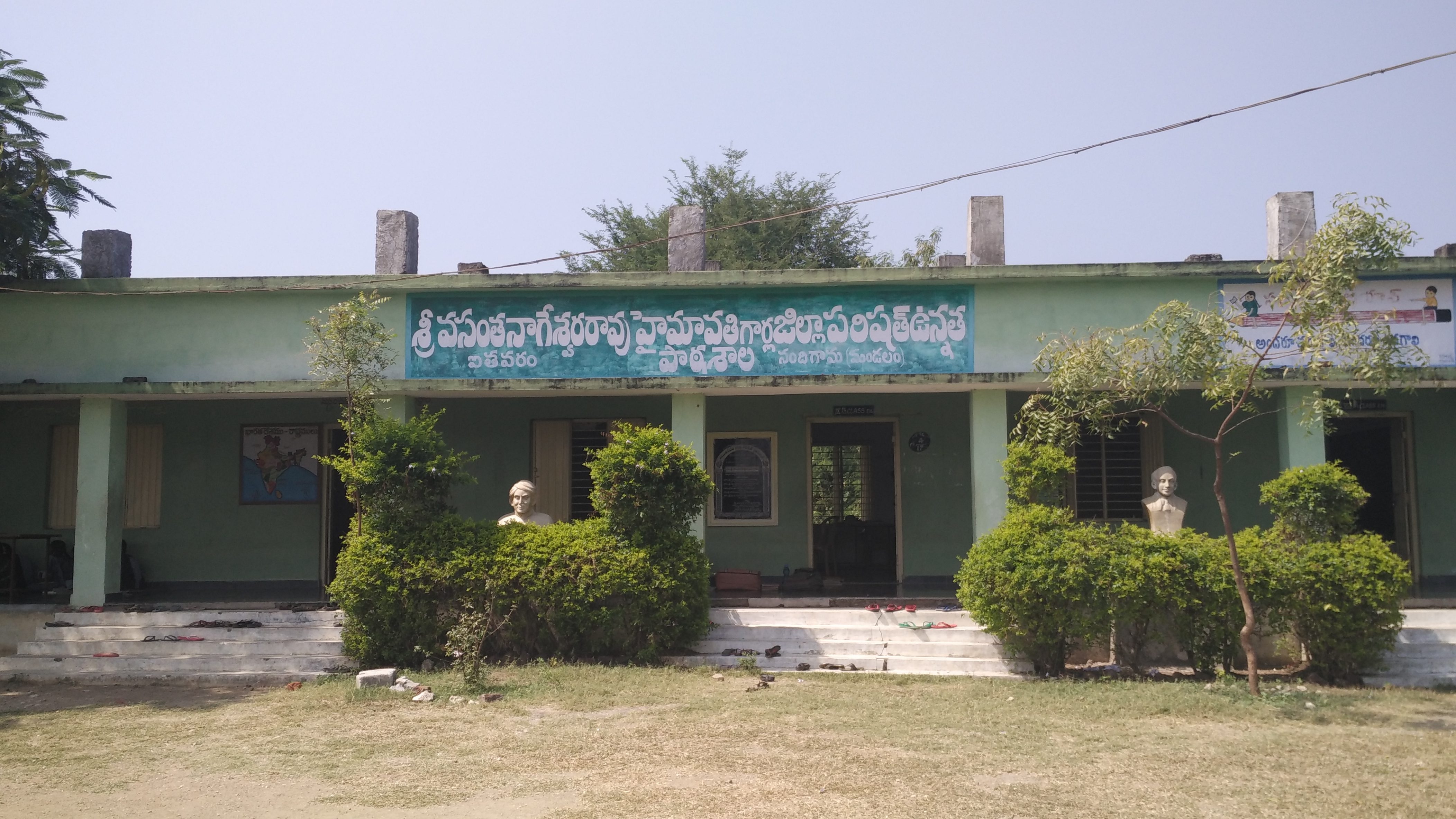 ZP High School in Aithavaram village, Nandigama Mandal, Krishna District, A.P